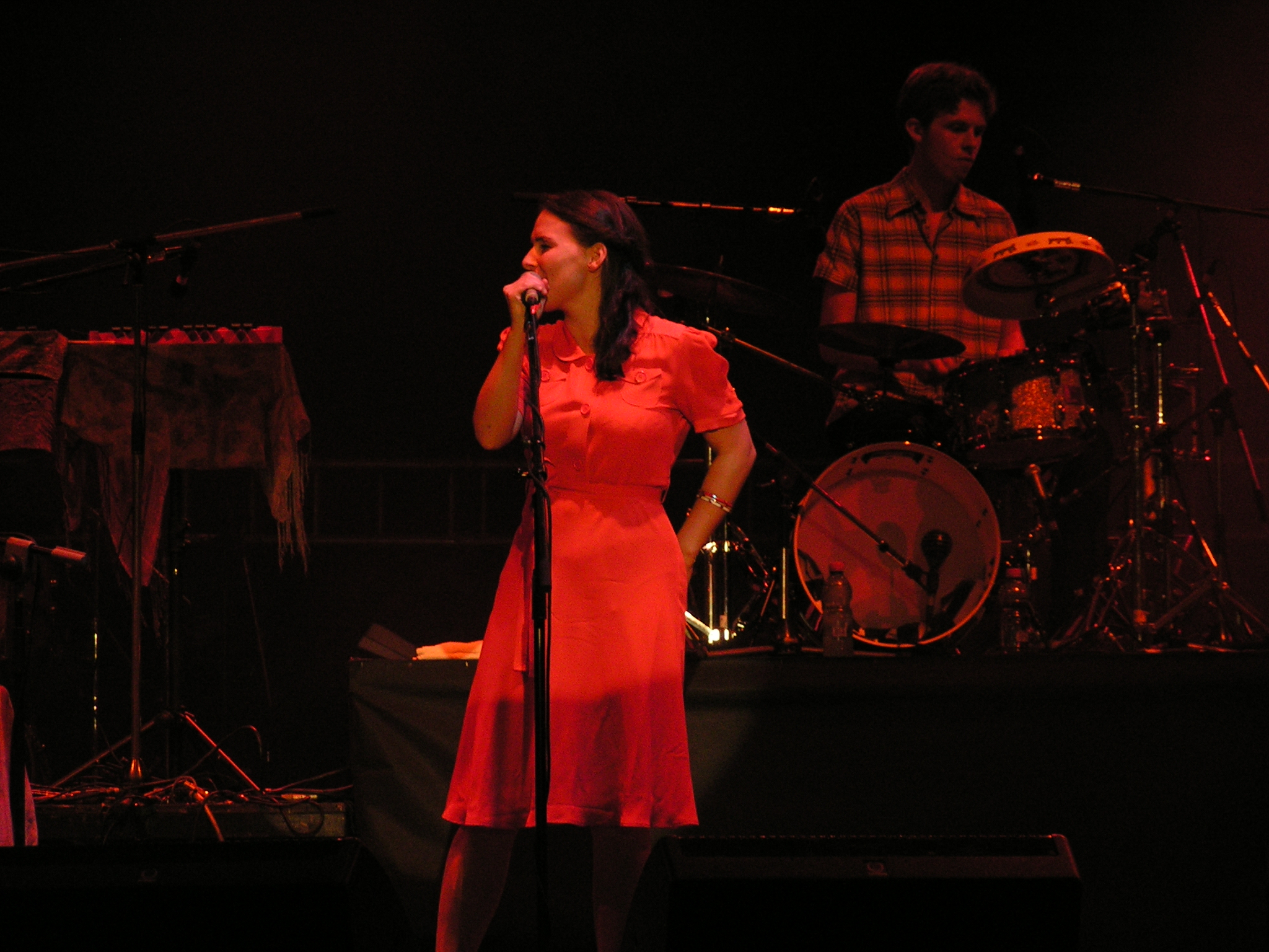 Emiliana Torrini at the Orange Music Experiece Festival, Haifa 2005